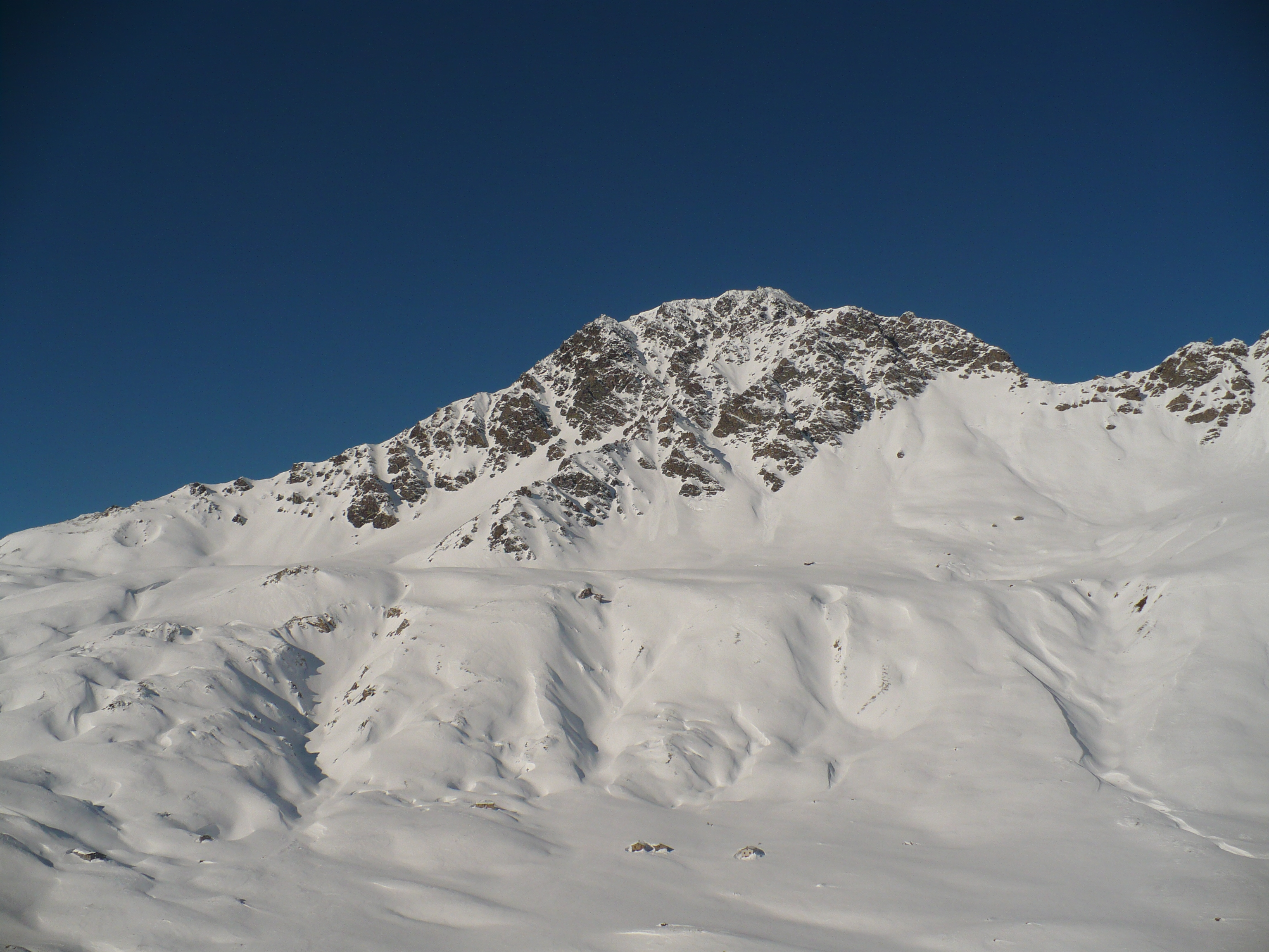 Punta Clairy (Signal du Petit Mont-Cenis) - Cottian Alps - Haute Maurienne - France